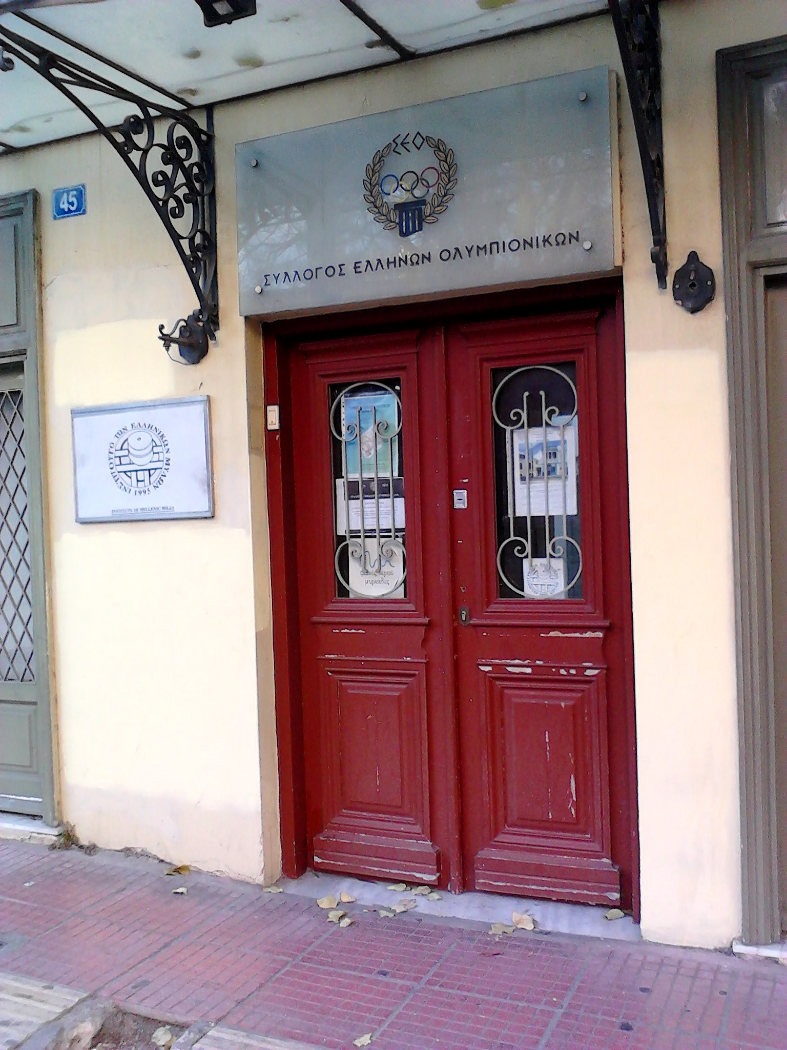 Building in Athens